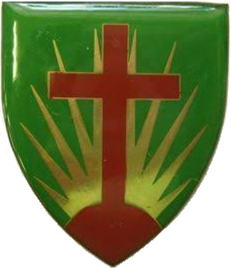 SADF era Wolmaransstad Commando emblem